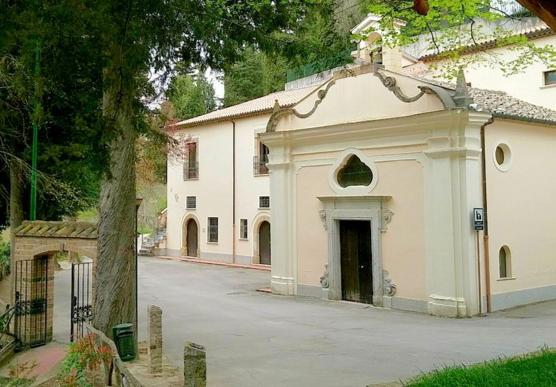 The sanctuary of Our Lady of Valleluogo in Ariano Irpino, Italy